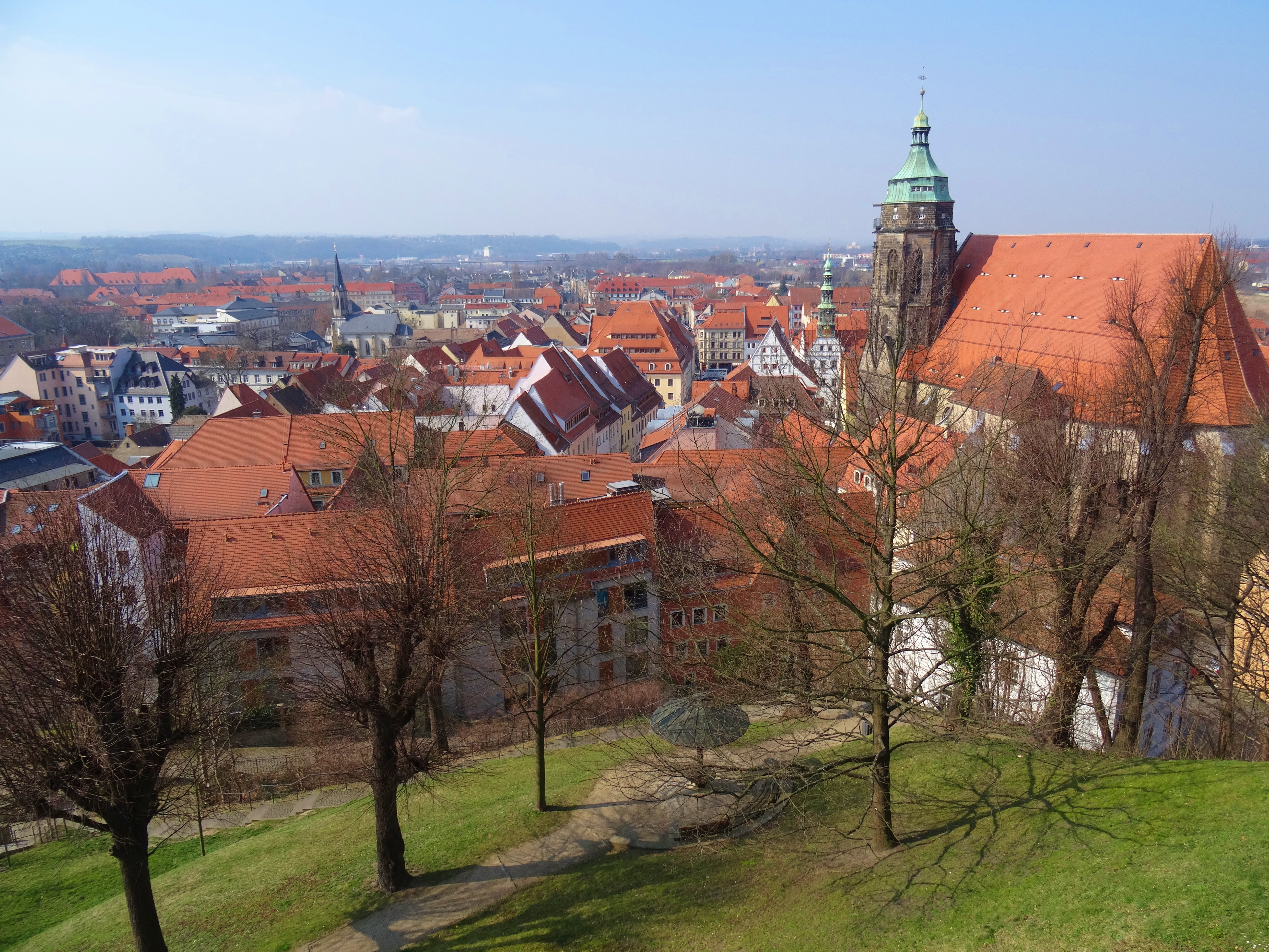 The Human rights memorial Castle-Fortress Sonnenstein in Pirna's old-town.